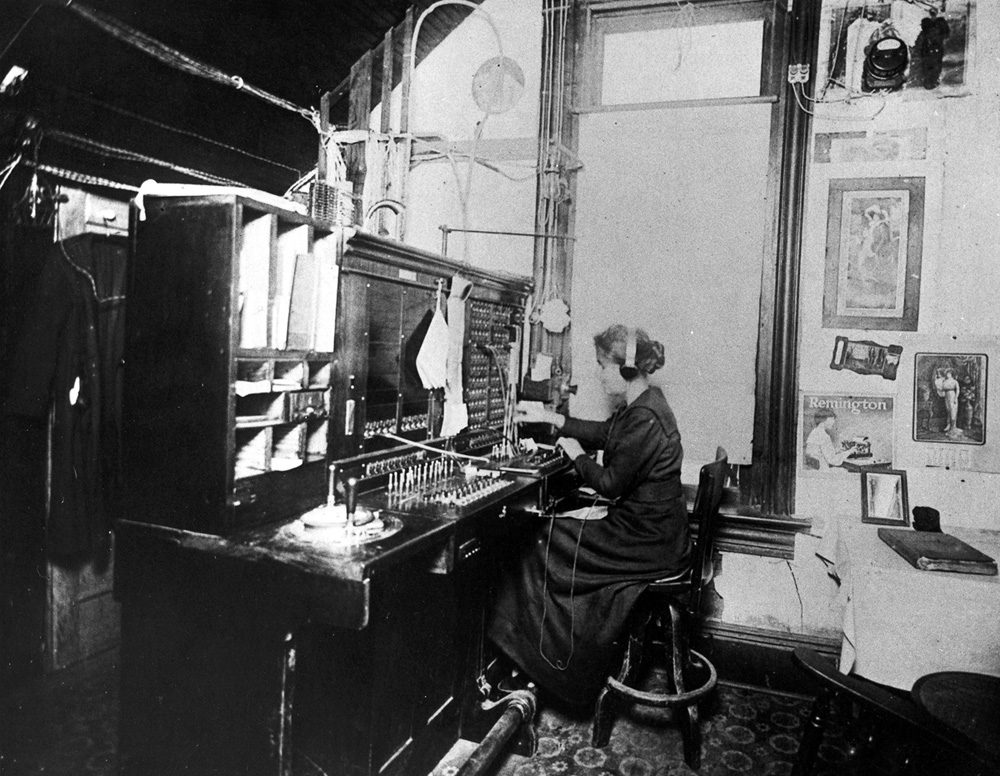 A Telephone Exchange operator in Richardson, Texas, circa 1900. This was scanned by the uploader from the Richardson Public Library local history archives, courtesy of the Richardson Historical and Genealogical Society.